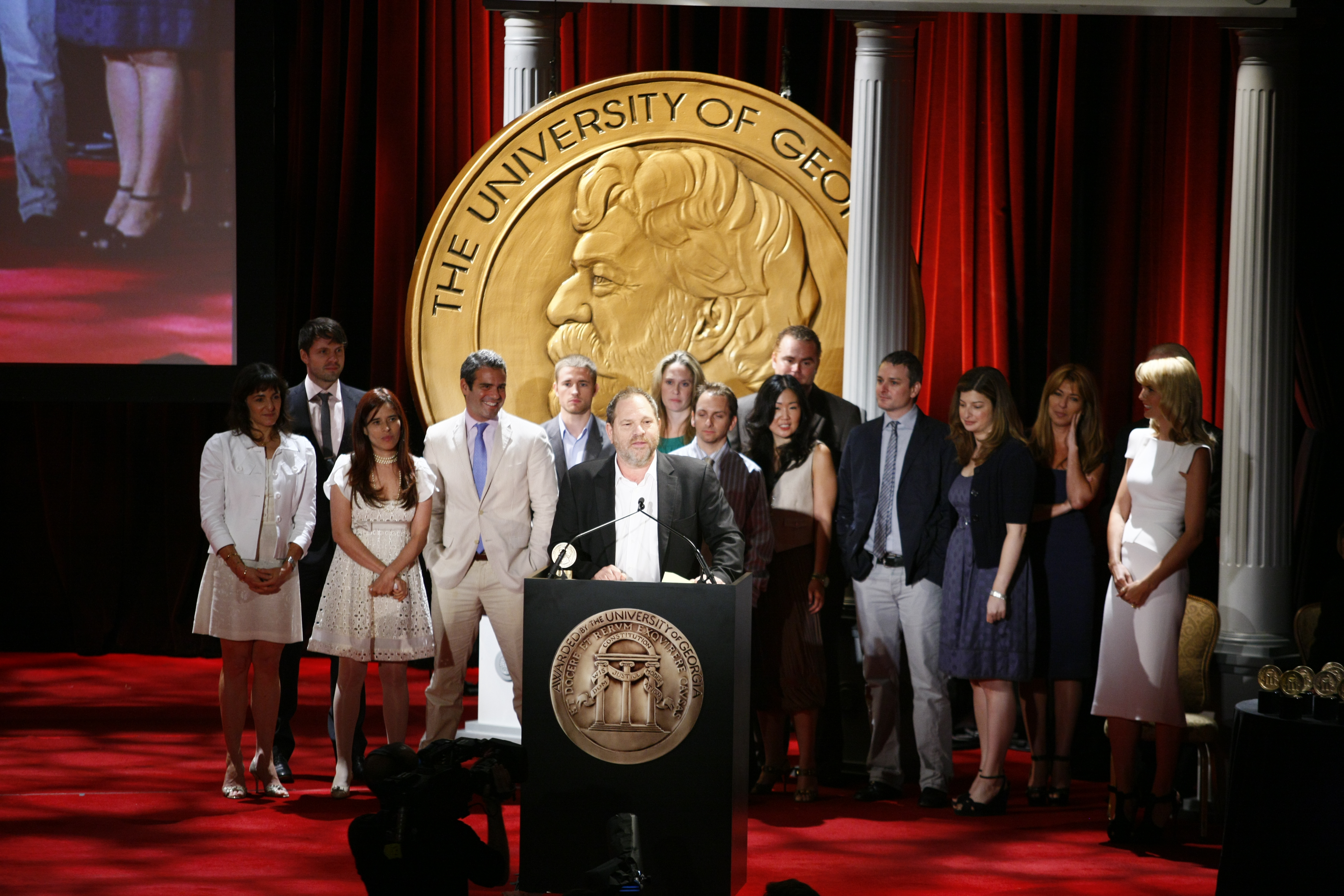 PHOTO CREDIT: ANDERS KRUSBERG / PEABODY AWARDS Jane Lipsitz, Harvey Weinstein, Heidi Klum, Tim Gunn and Nina Garcia 67th Annual Peabody Awards Luncheon Waldorf=Astoria Hotel New York, NY USA June 16, 2008